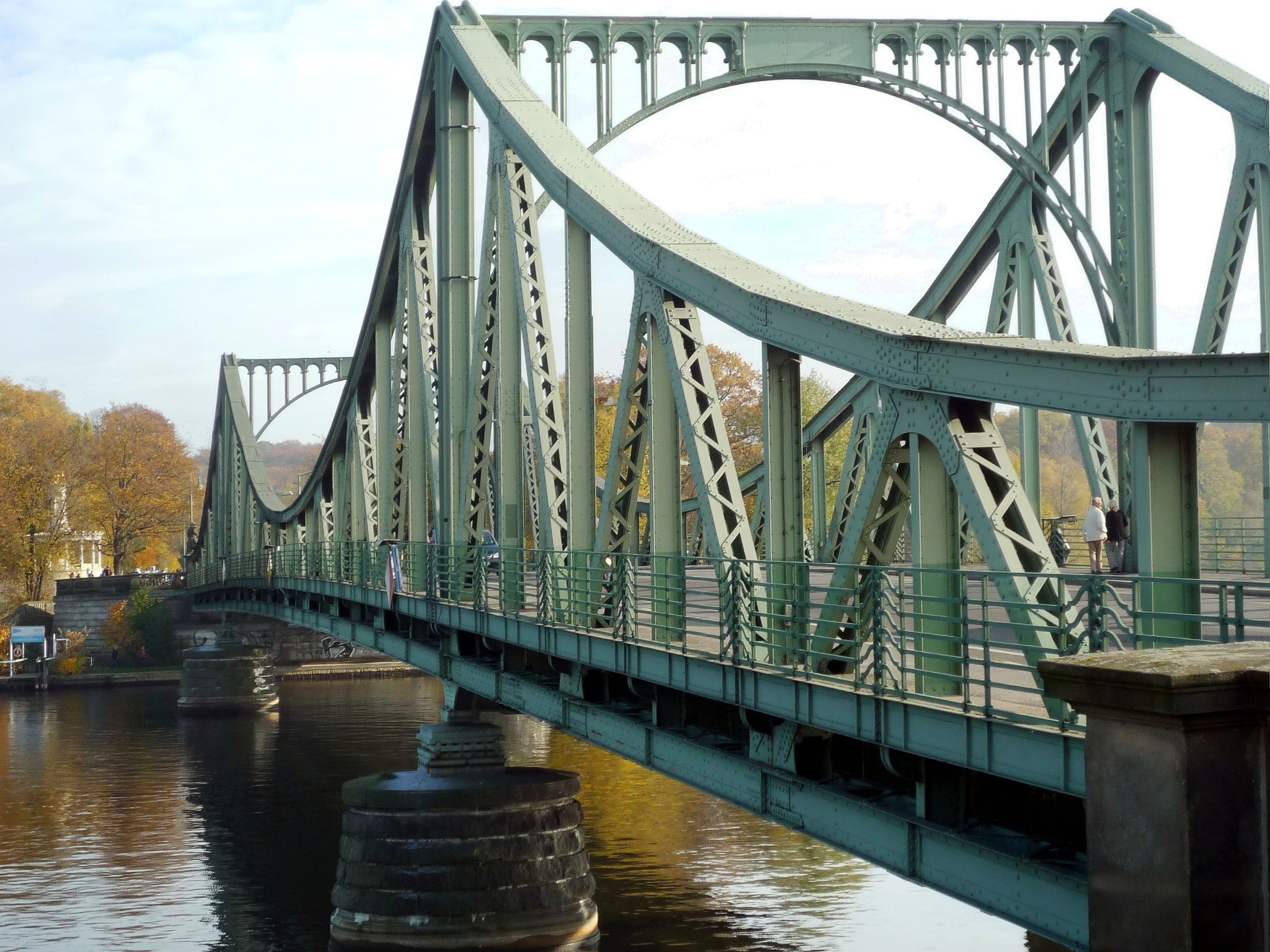 The "Glienicker Brücke", connecting Berlin (in the background) and Potsdam.